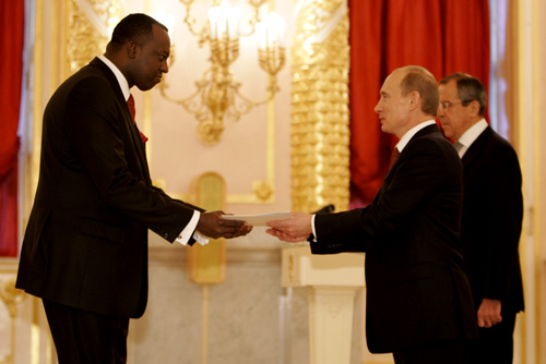 THE KREMLIN, MOSCOW. The President of Russia received the letter of credential of the Ambassador of the Republic of Rwanda, Eugene-Richard Gasana.